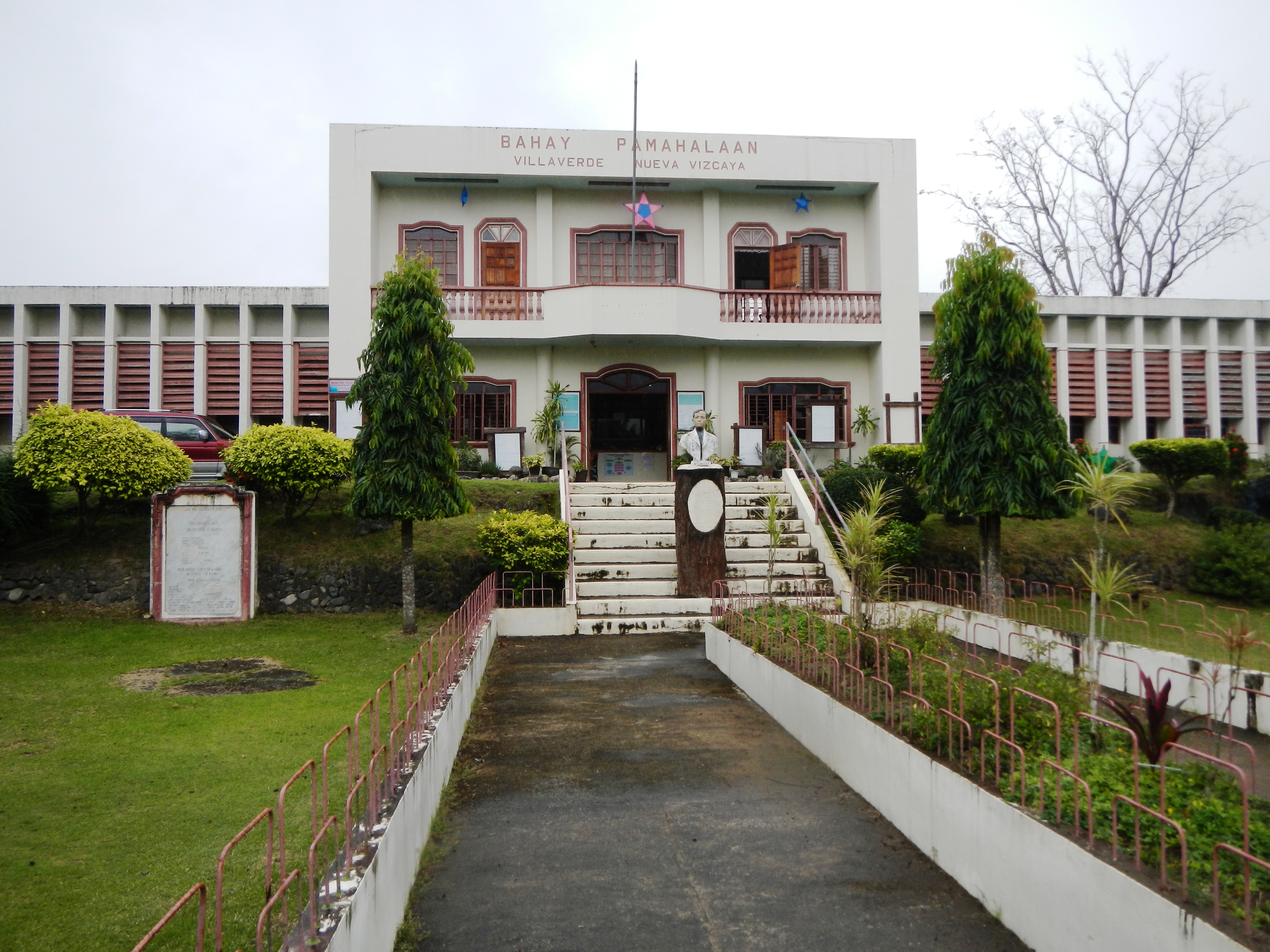 Upload Wizard photos of -- (general description of landmarks, town, Church, going to dark, sunset conditions) - of the Logo, Official Seal and Municipal Hall Complex Compound of Villaverde, Nueva Vizcaya[1] (5th class municipality in the province of Nueva Vizcaya, Philippines[2] politically subdivided into 9 barangays).